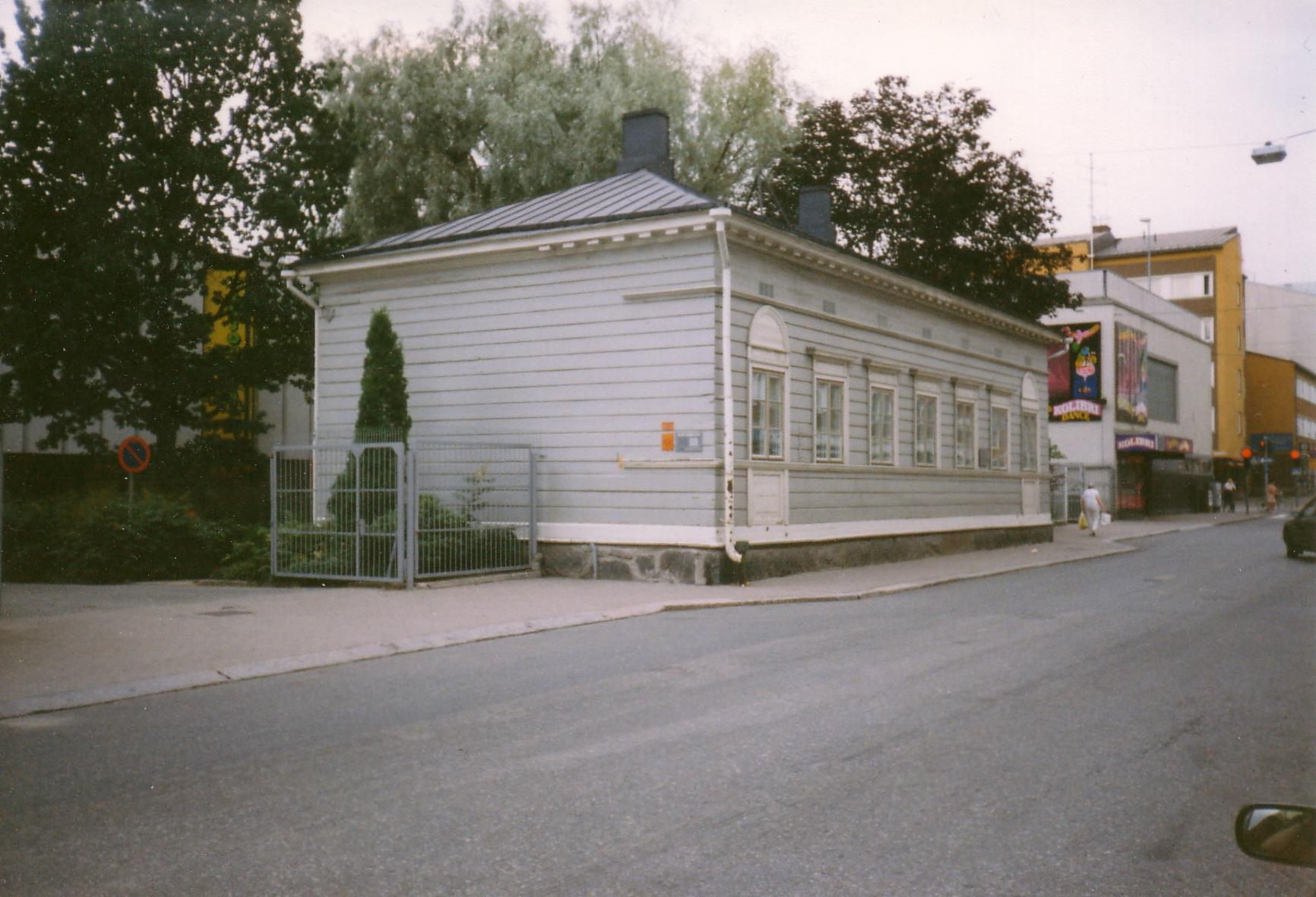 Birthplace of Jean Sibelius, Hallituskatu 11, Hämeenlinna, Finland